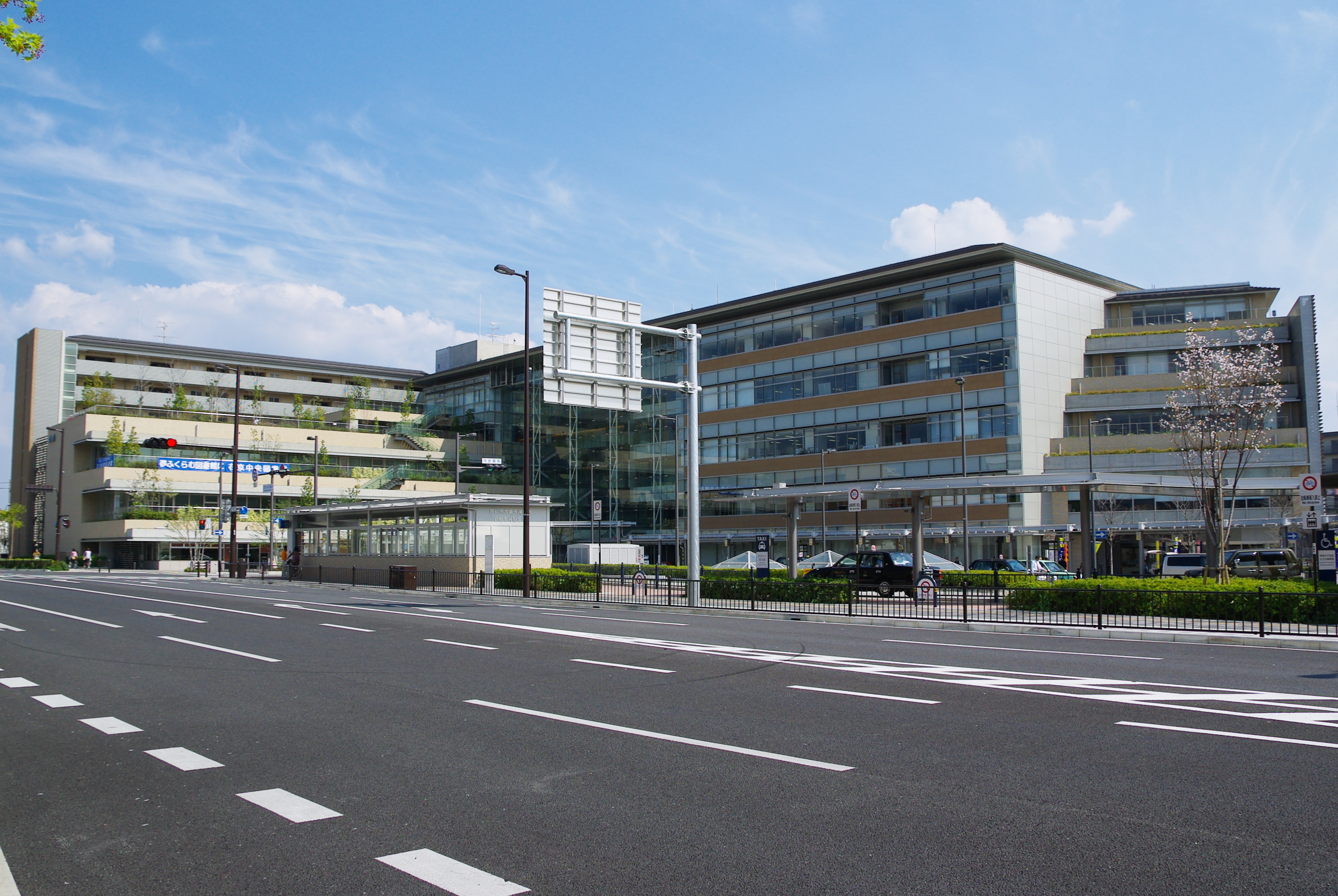 Photograph of Sansa Ukyo, Uzumasa East Area Urban Redevelopment Building, including Ukyo Government Office Complex, Ukyo Central Library, Ukyo Area Gymnasium, Kyoto Municipal Transportation Bereau Headquarters and condominium apartment, in Ukyo-ku, Kyoto, Kyoto Prefecture, Japan.